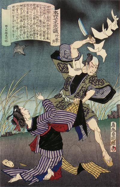 Kataha-no-ashi, from the Honjo-nana-fushigi, Woodblock print (nishiki-e); ink and color on paper